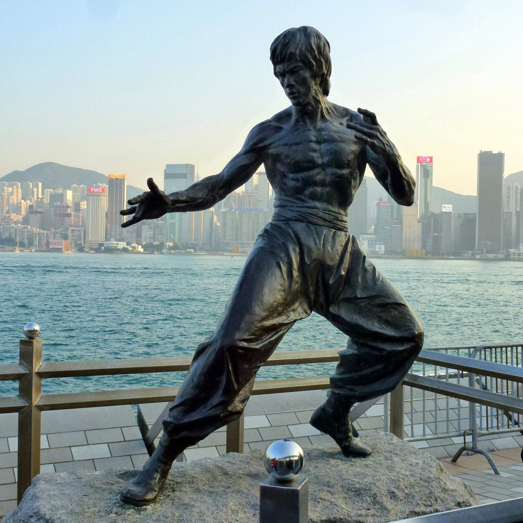 The Bruce Lee statue in Hong Kong is a memorial figure of deceased martial artist, Bruce Lee. The 2.5 metre bronze statue by artist Cao Chong-en was erected along the Avenue of Stars attraction near the waterfront at Tsim Sha Tsui.